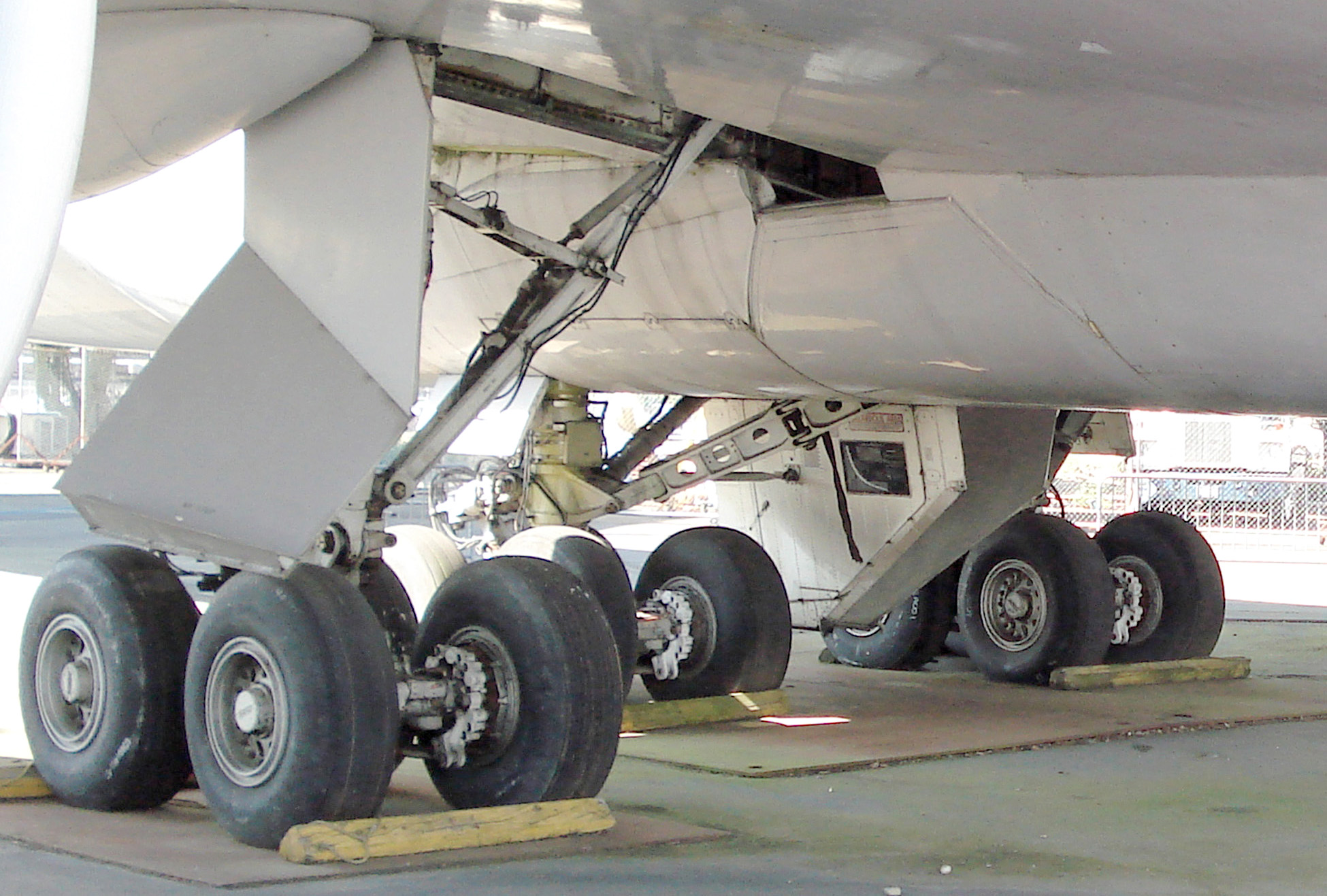 Boeing 747 main gear at the Museum of Flight